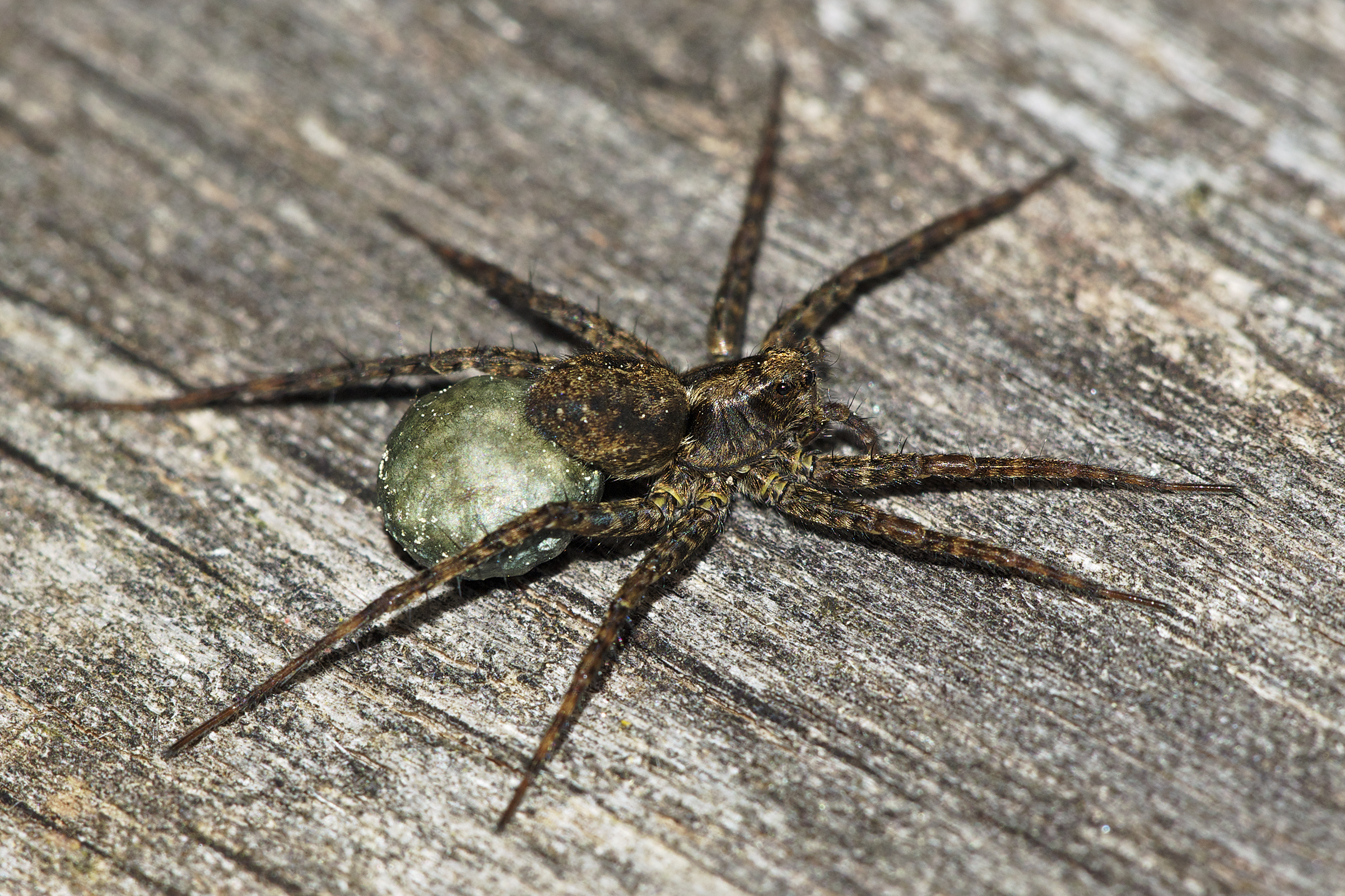 Female Wolf spider (Pardosa amentata) with her egg sac, Chemnitz, Germany